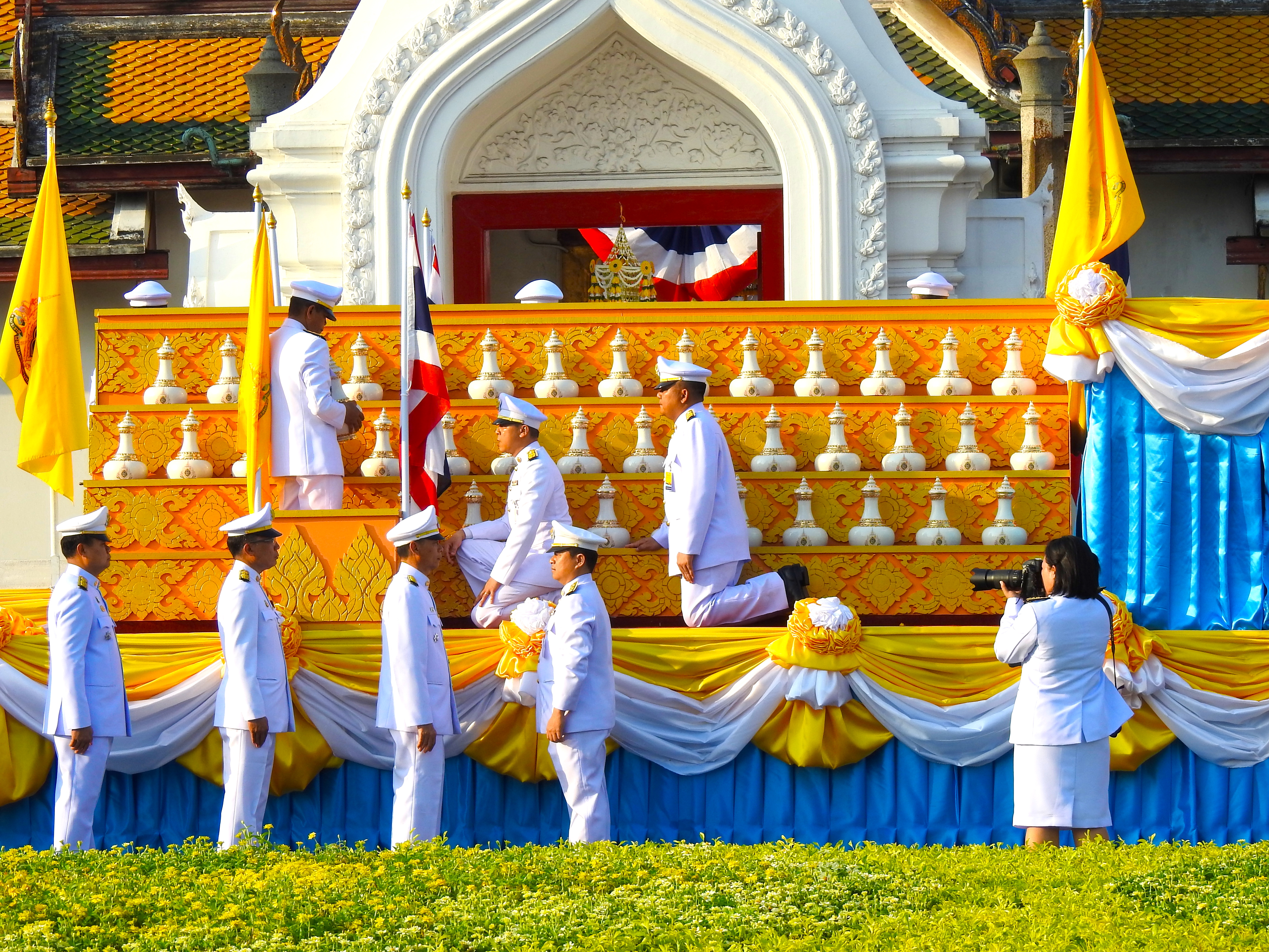 The Coronation of King Rama X